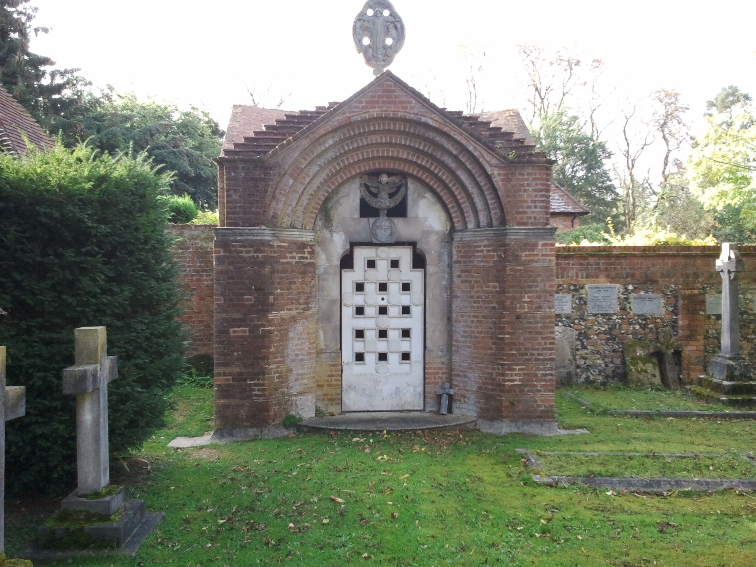 Hannen Mausoleum, St Mary's parish churchyard, Wargrave, Berkshire. A square, neo-Byzantine building designed by Edwin Lutyens and completed in 1907.